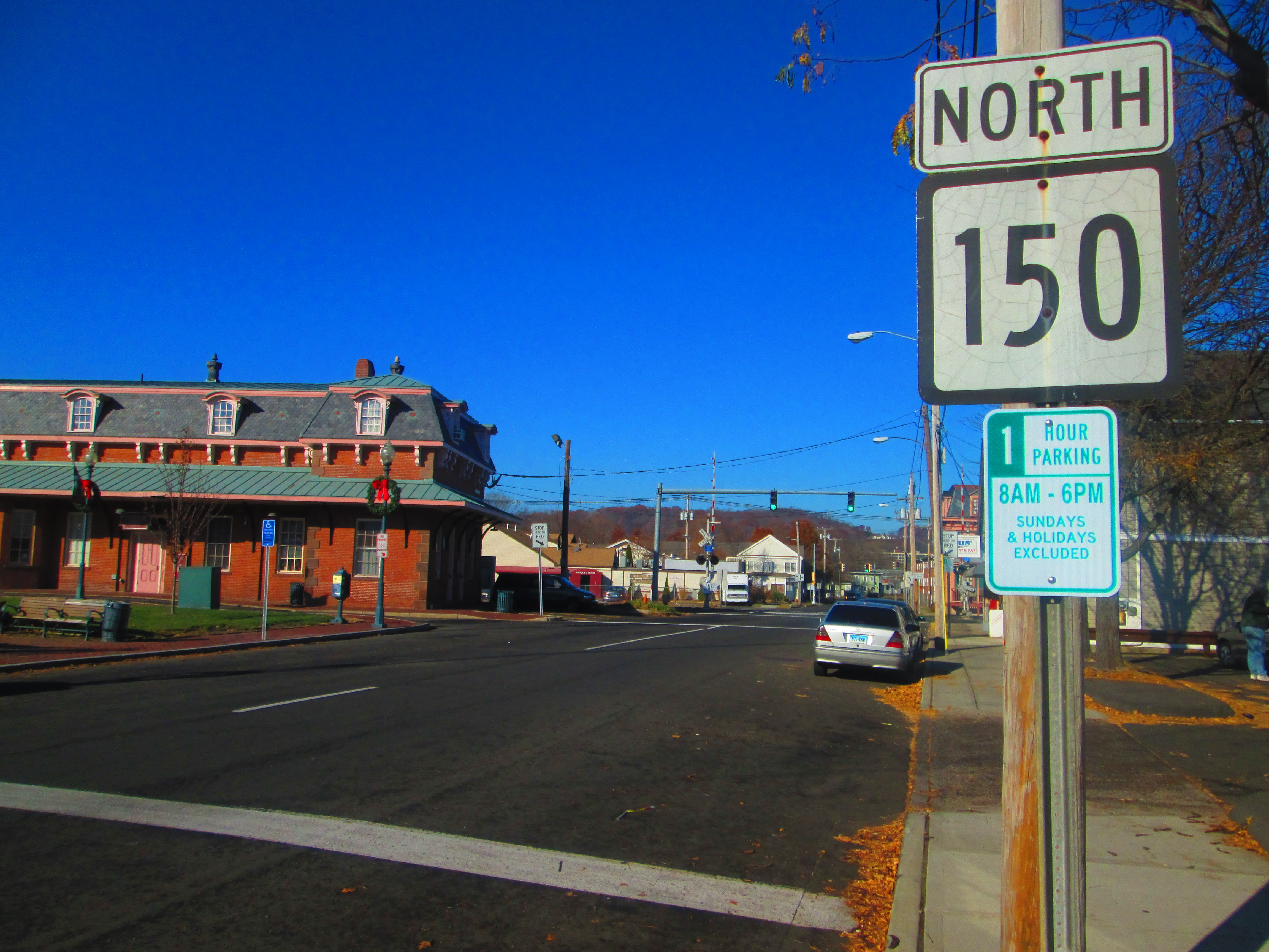 Connecticut Route 150 northbound approaching Wallingford, Connecticut's Wallingford Amtrak station.